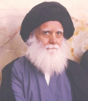 Shaheed Syed Muhammad al-Sadr